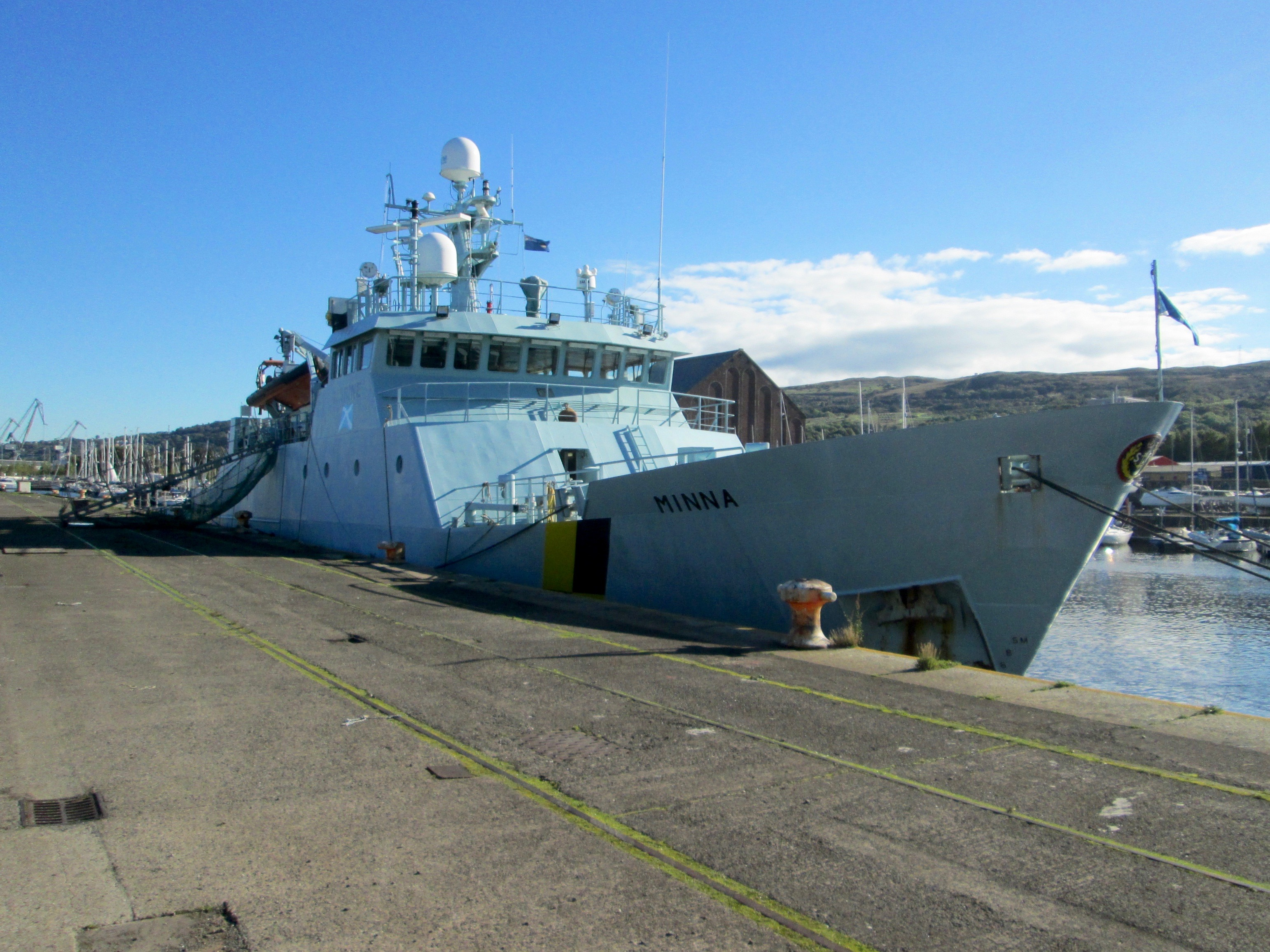 Marine Scotland fisheries inspection vessel Minna" at the James Watt Dock, Greenock